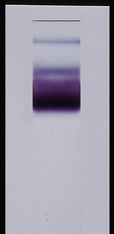 Glucose-6-Phosphate Dehydrogenase isoenzymes in Plasmodium falciparum infected Red Blood Cells. The isoenzymes were detected according to Siciliano, Shaw (1976) Separation and visualization of enzymes on gels in: Chromatographic and Electrophoretic Techniques, W. Heinemann Medical Books, London, The heavily stained band is the host G-6-PDH activity, the slow moving band is the bifunctional enzyme Glucose-6-Phosphate dehydrogenase-6-phosphogluconolactonase from the malaria parasites.